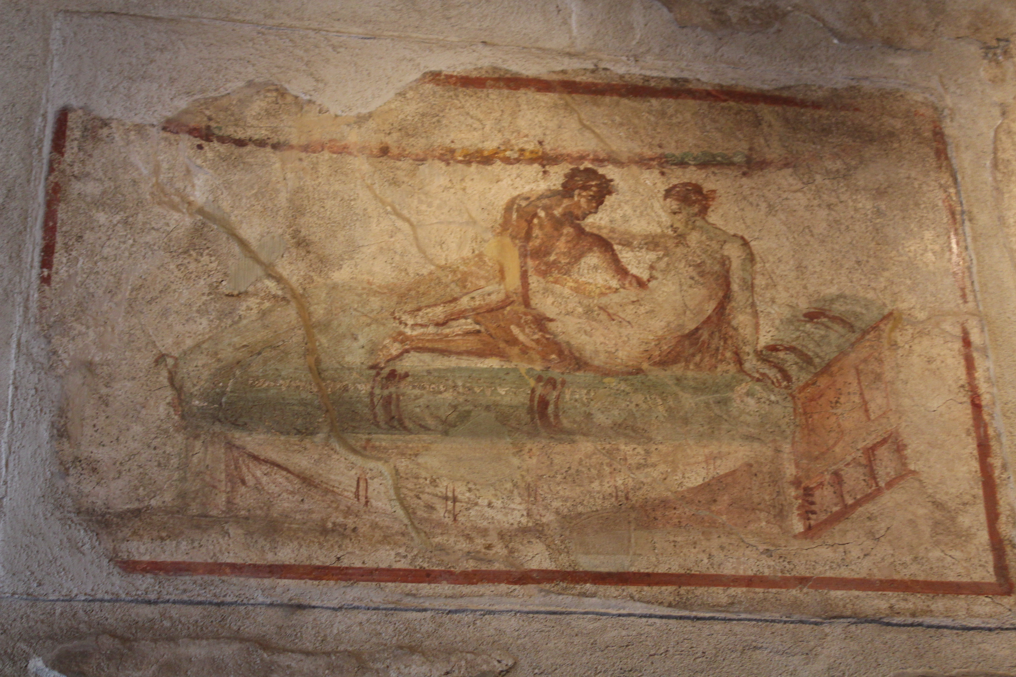 Ancient Roman frescos in the Lupanar, Pompeii, Italy